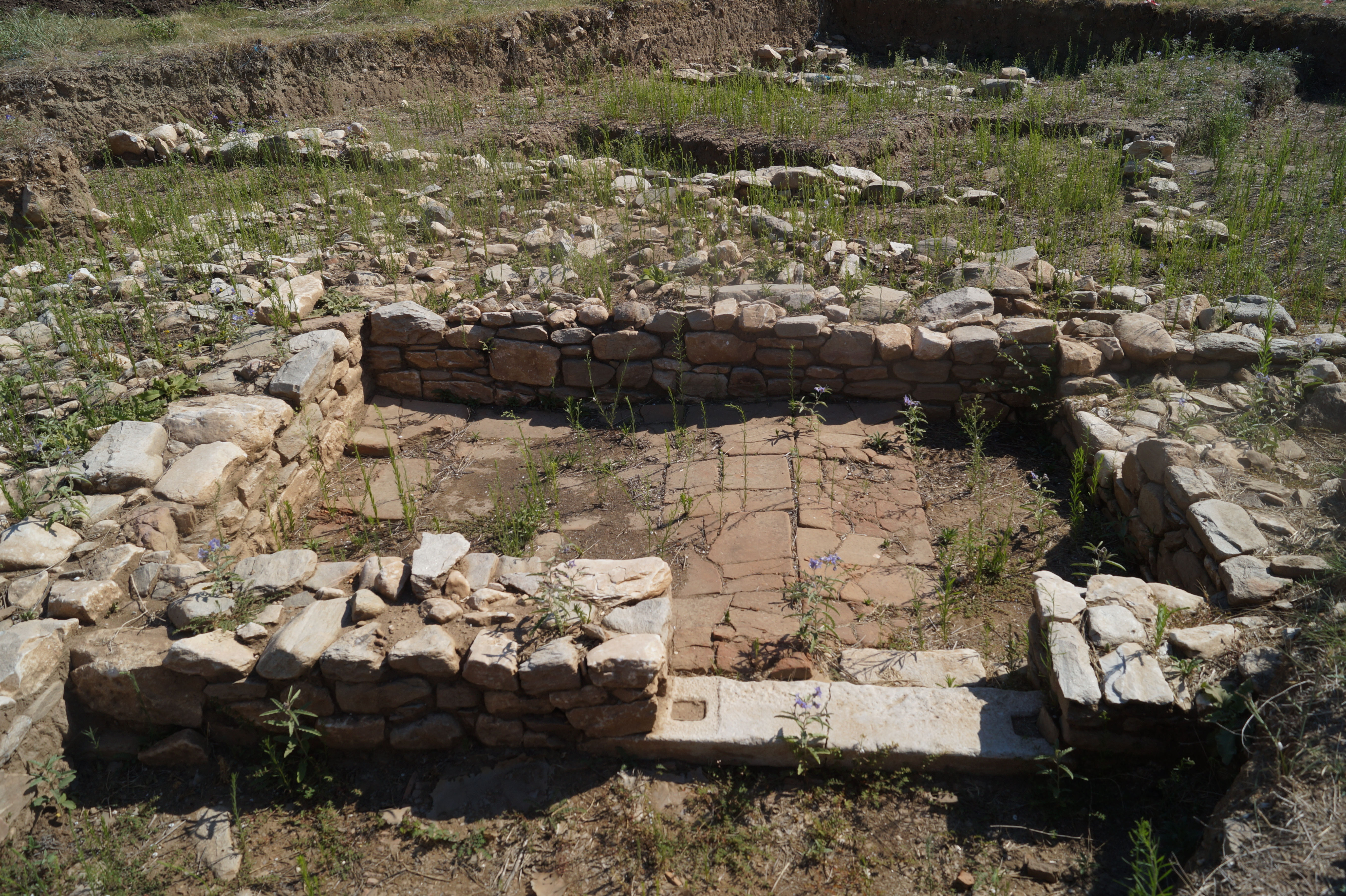 Pontolivado, Makedonia, Greece: Archaeological site of Pistyros. Remains of a house.